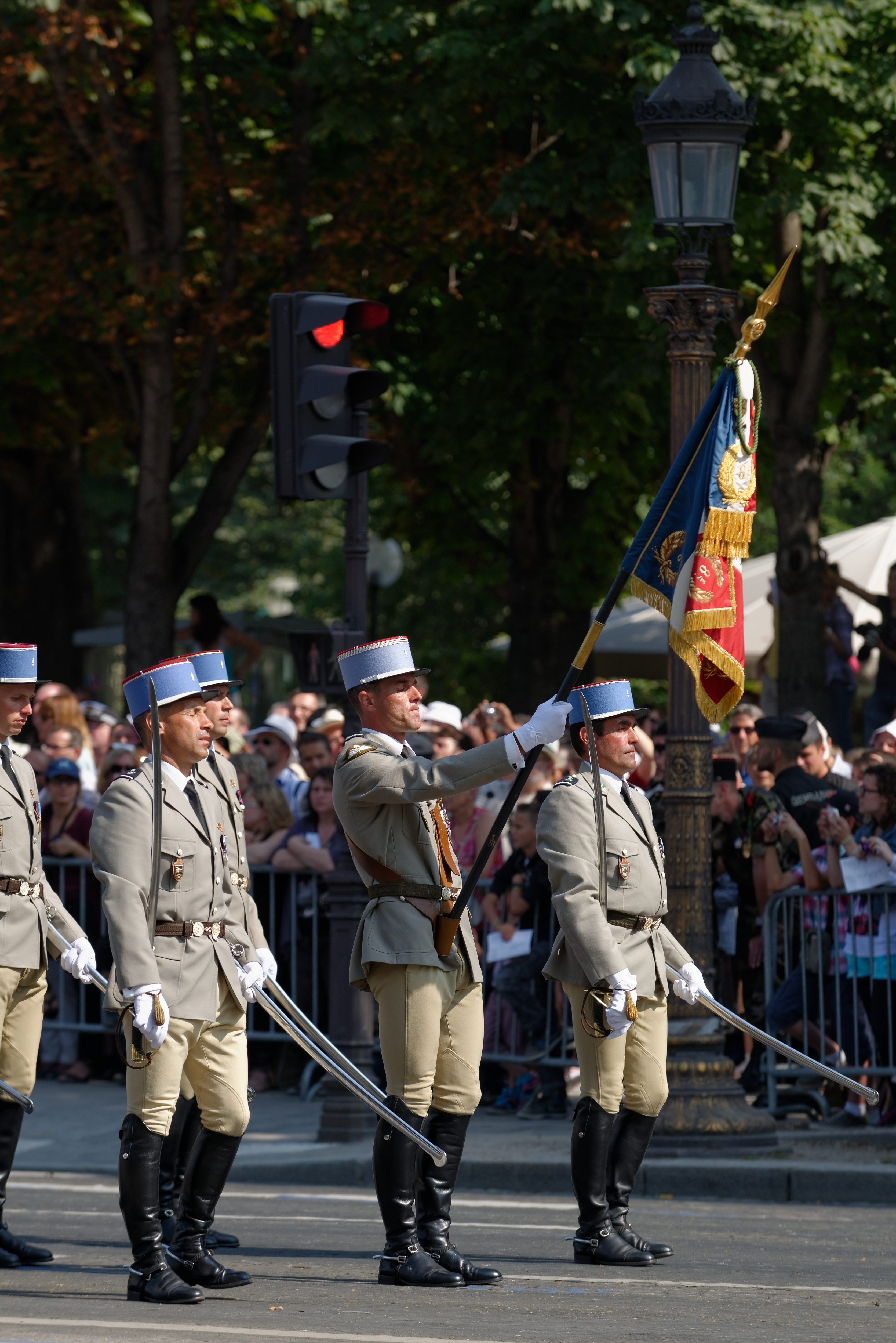 Colour guard of the Sports Centre for Military Horse Riding, bearing the flag of the 8th Dragoon Regiment of the École nationale des sous-officiers d'active in the Bastille Day 2013 military parade on the Champs-Élysées in Paris.